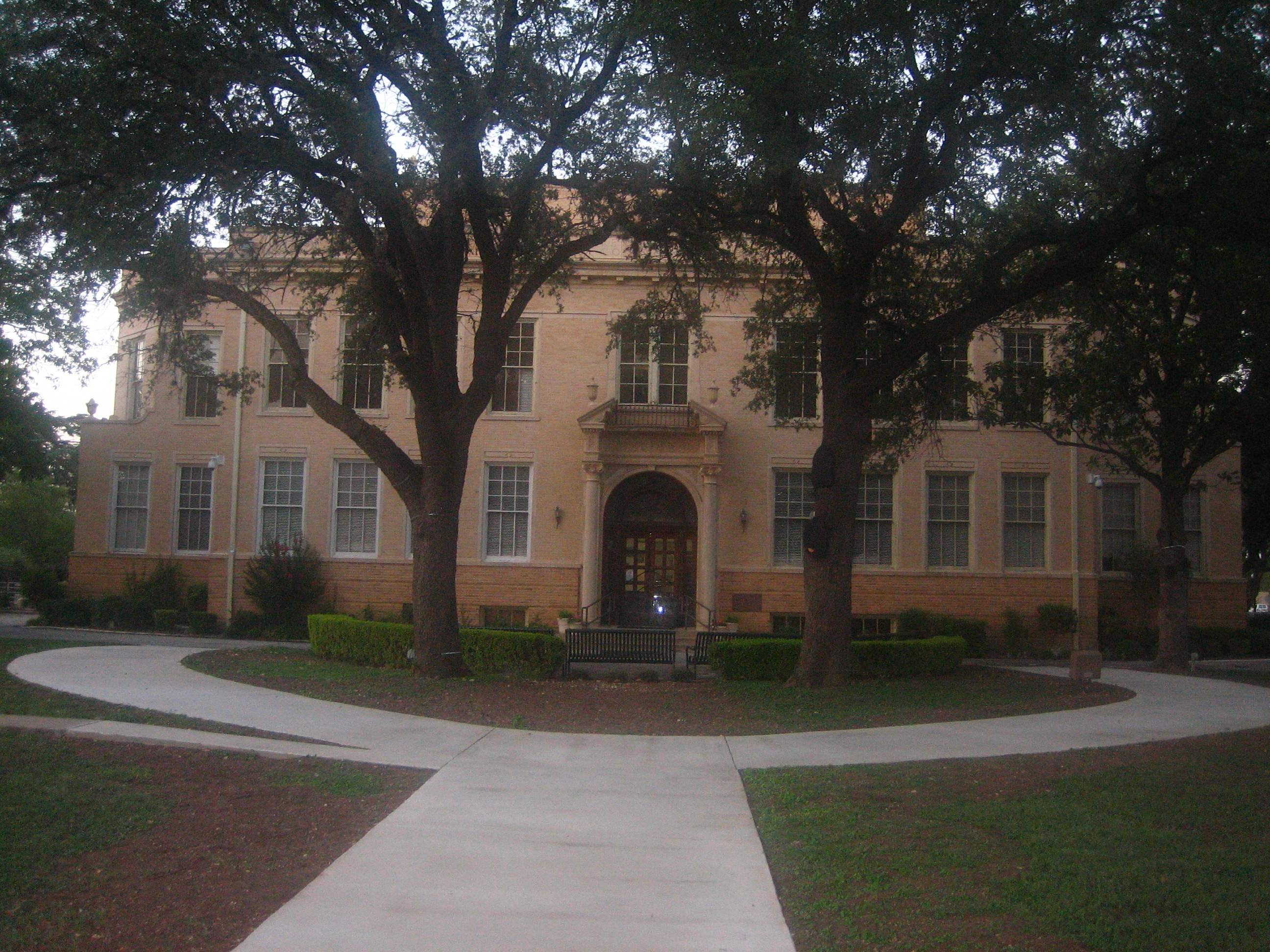 The Kerr County Courthouse in Kerrville, Texas, United States. I took this photo on July 18, 2008.Billy Hathorn (talk) 17:47, 20 July 2008 (UTC)